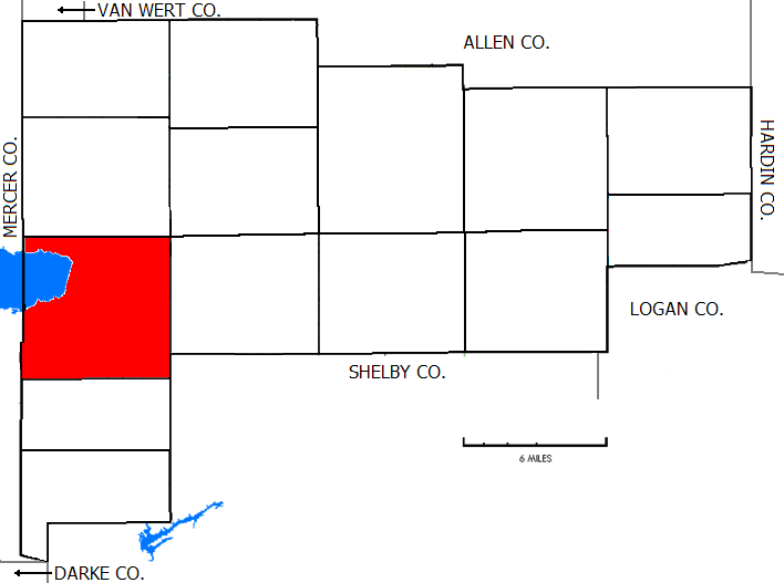 Taken from the Auglaize County, Ohio map provided by Prinzwilhelm, who claimed that the original map was "self-created based on U.S. Government Census Maps and Date," and modified by myself to show the highlighted township.